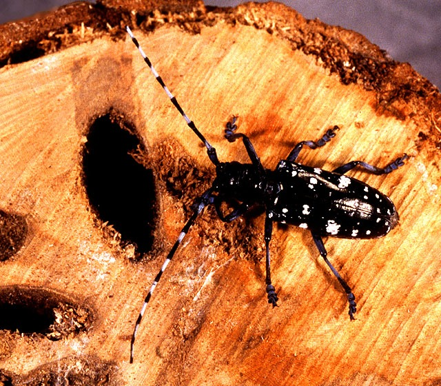 upload from pub domain image databaseAnoplophora glabripennis